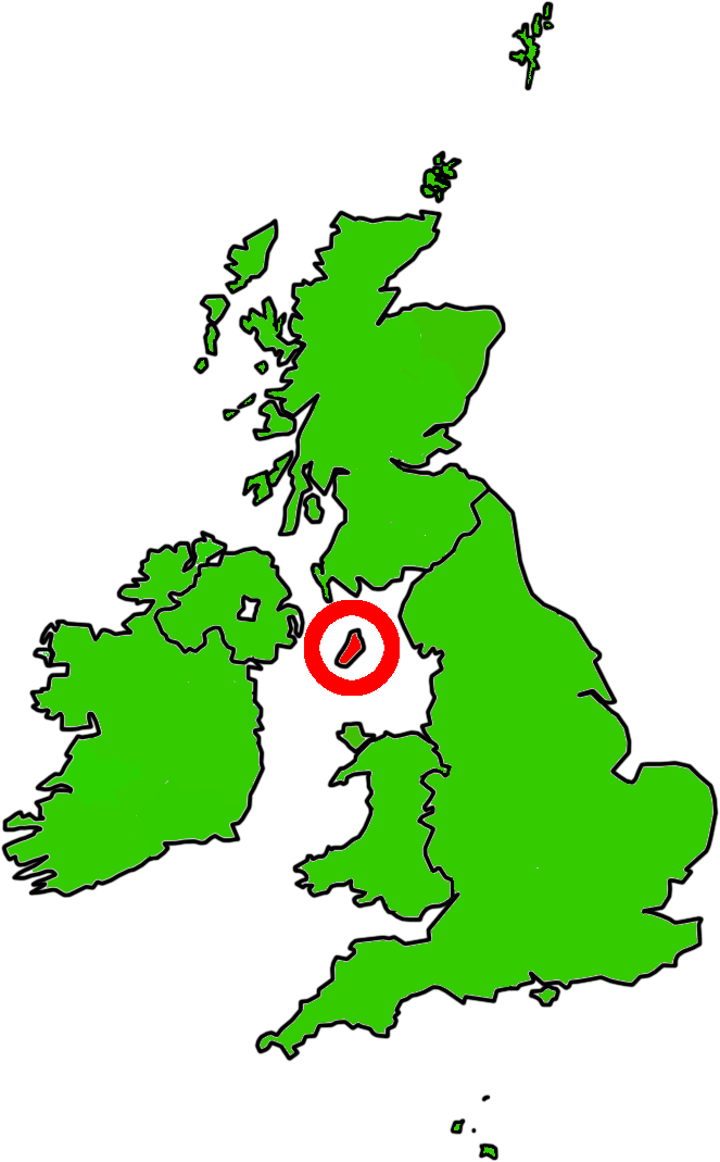 Map showing the Isle of Man within the British Isles, designed for use at very low resolutions